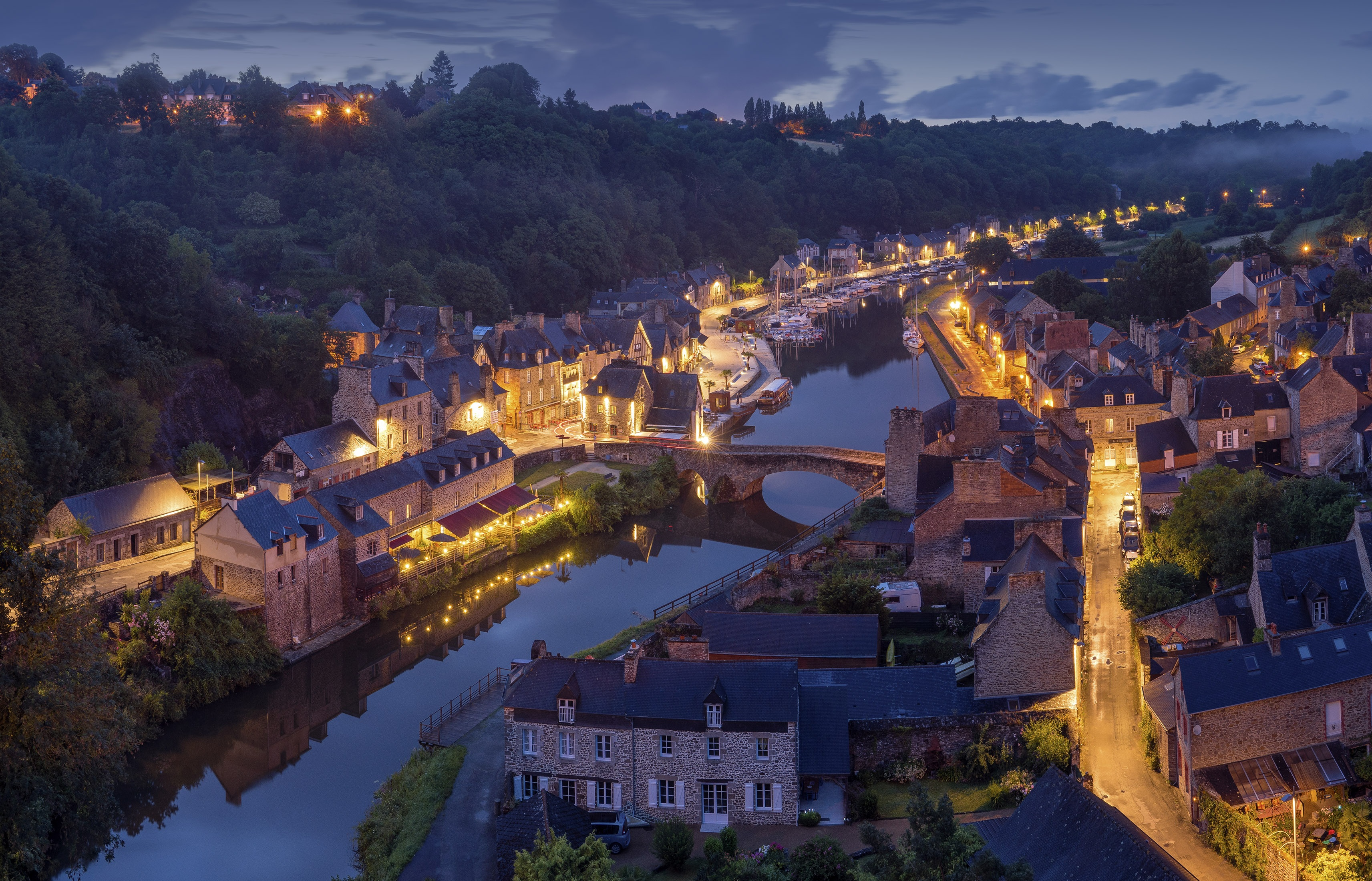 The city of Dinan in France with the river Rance flowing through it.